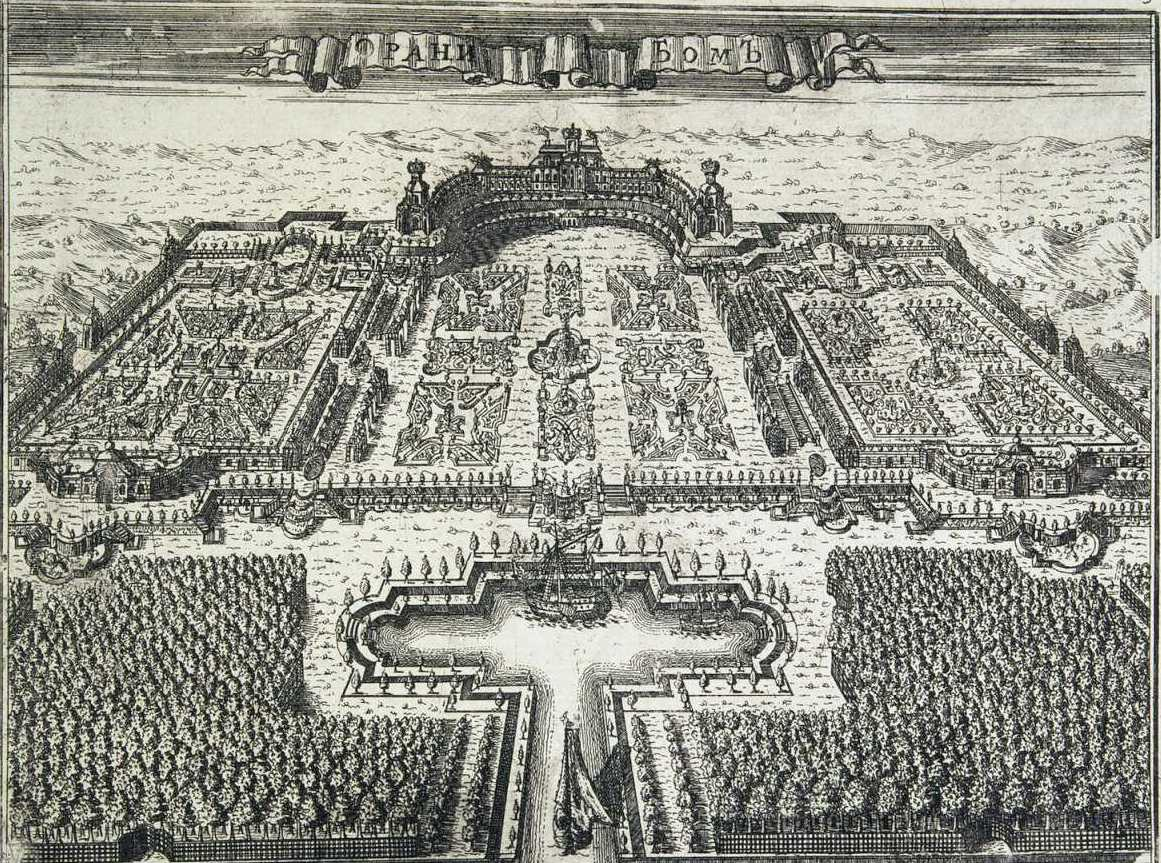 Grand Menshikov Palace (Oranienbaum, Russia) on the engraving (1717)